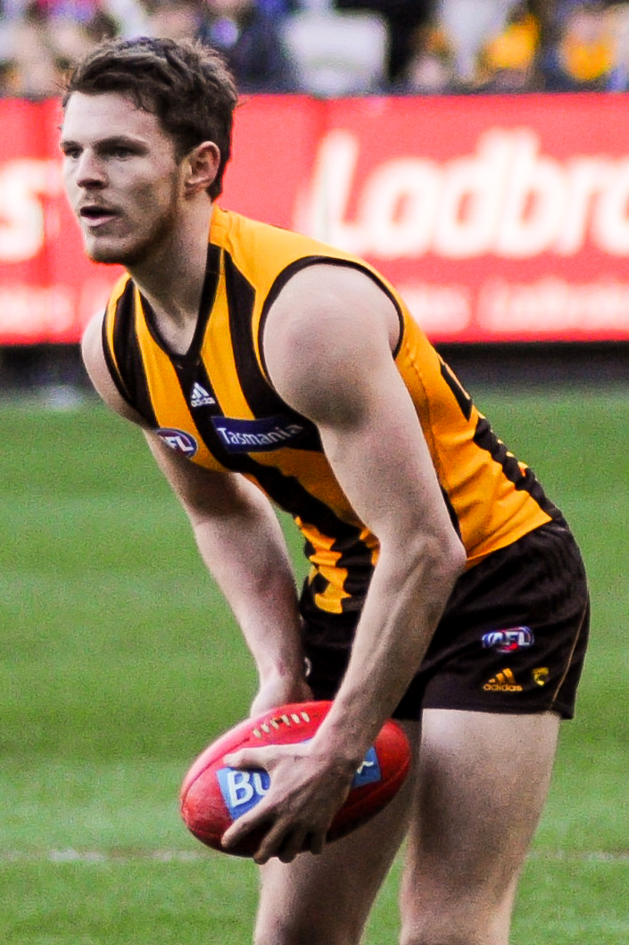 Blake Hardwick during the AFL round twelve match between Melbourne and Collingwood on 10 June 2017 at the Melbourne Cricket Ground in Melbourne, Victoria.